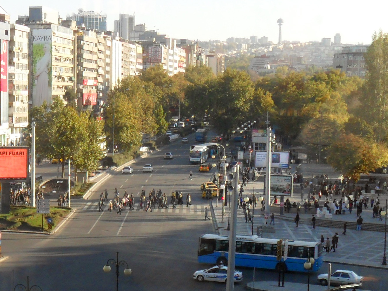 Site of 13 March 2016 Ankara Bombing, photo taken in 2013, Crop of File:Kızılay_Square,_Ankara,_Turkey.jpg by Nedim Ardoğa. Focused on the bus stops.